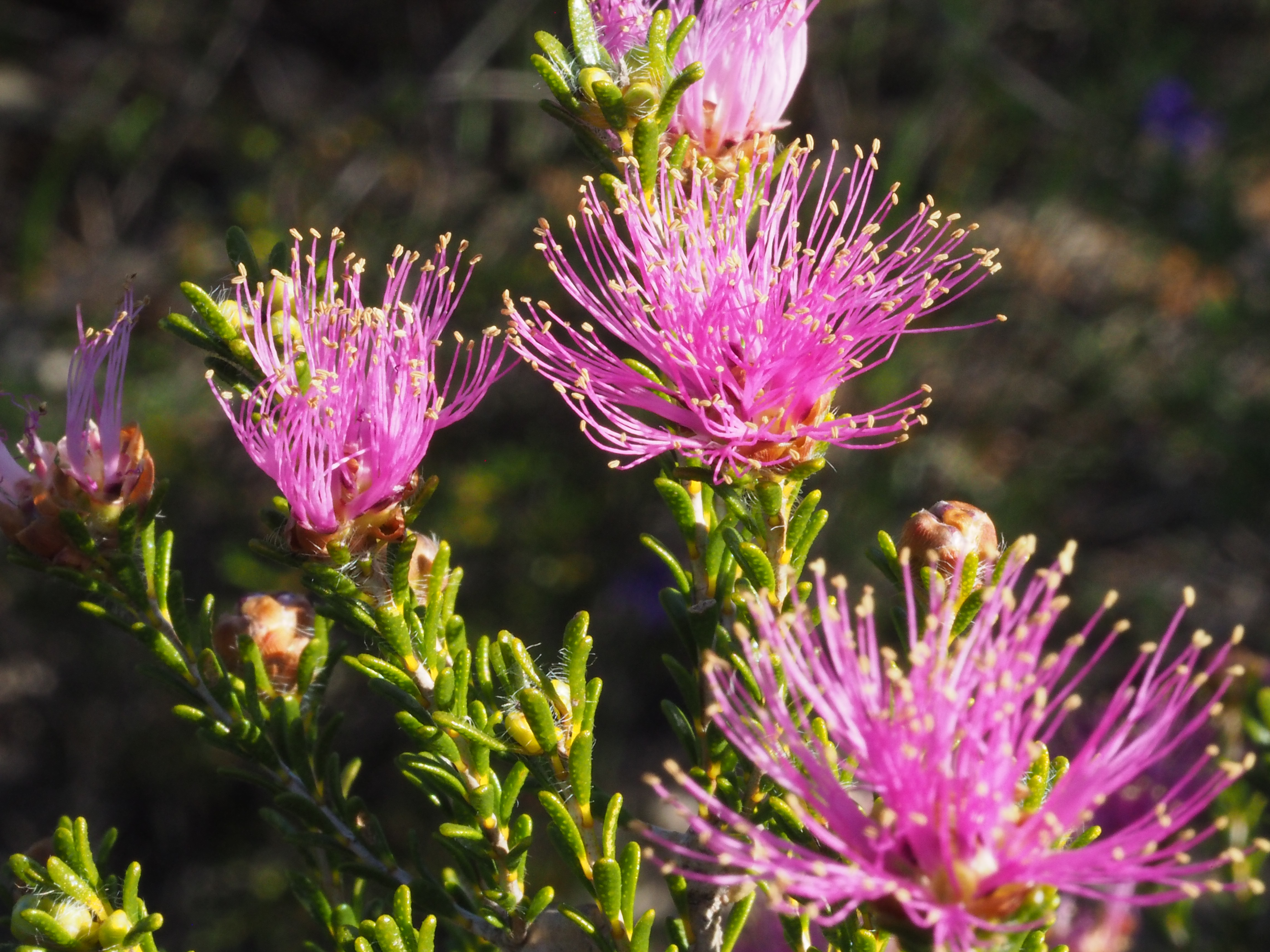 Melaleuca bisulcata in Kalbarri National Park, near Hawks Head turnoff